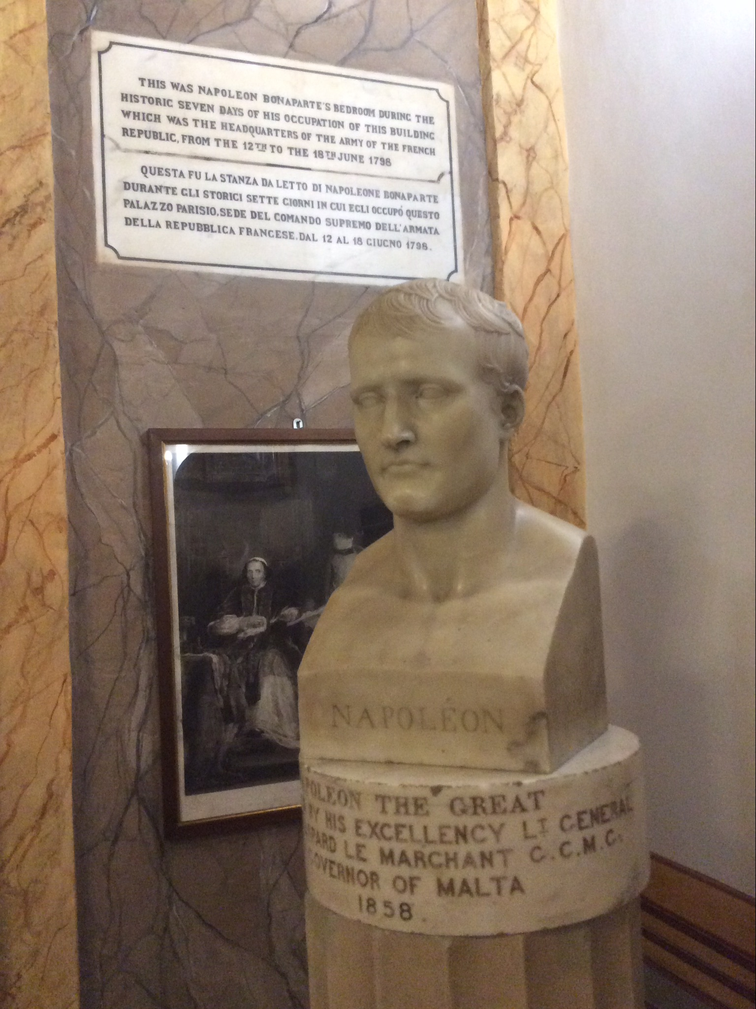 Napoleon Bonaparte in Malta. Commermorative bust; bedroom where he stayed for seven days at Palazzo Parisio. Other information None